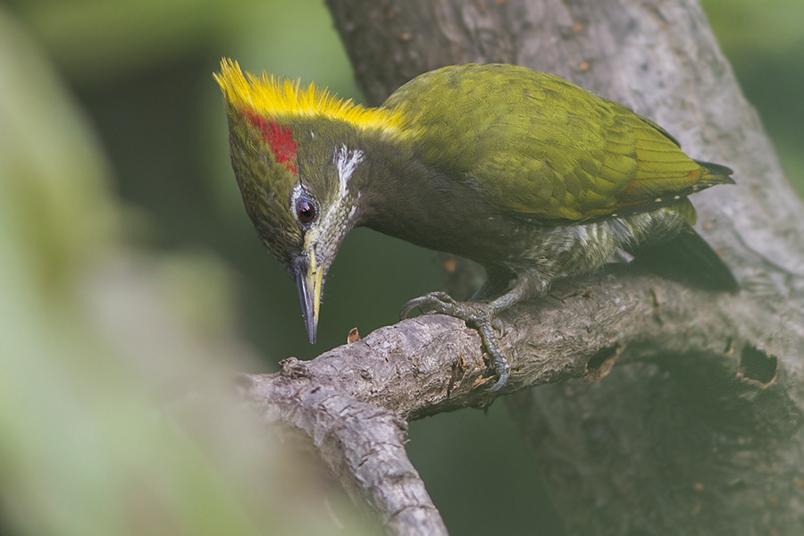 The specie Lesser Yellownape had been photographed at Ghatgarh, Uttarakhand, India on 06.10.2014.